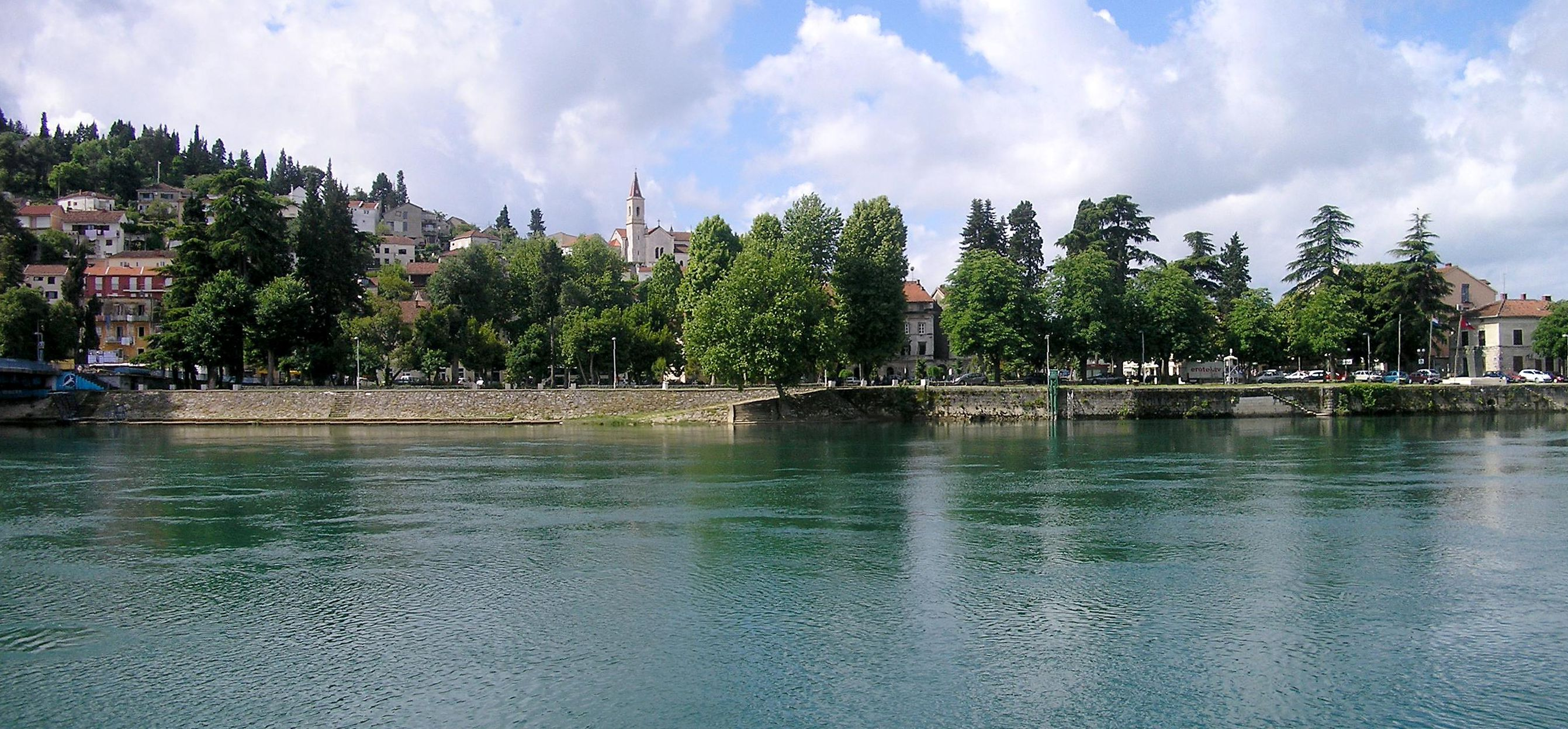 Park in Metković